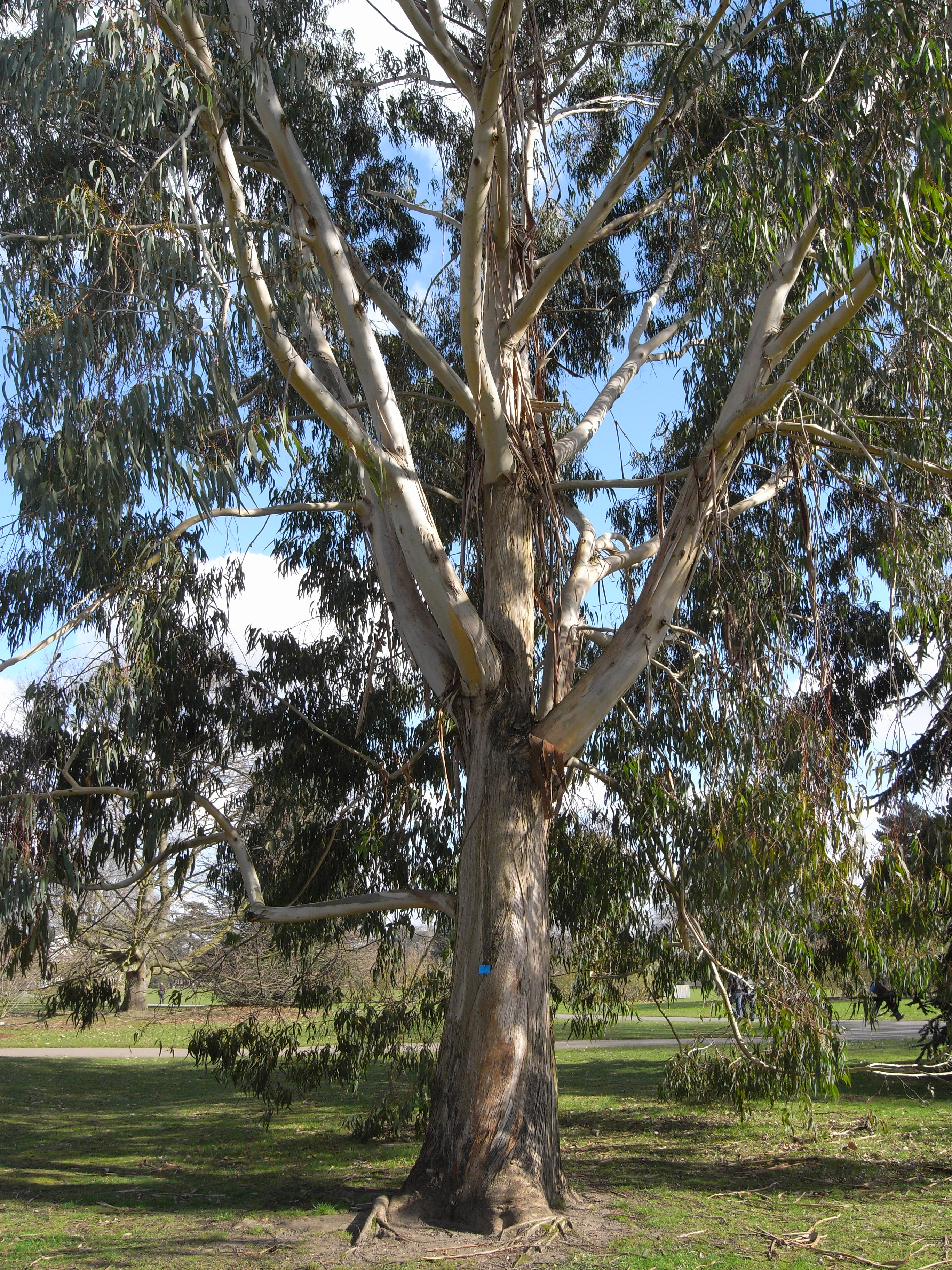 Eucalyptus Chapmaniana (Bogong Gum) in Kew Gardens, London.